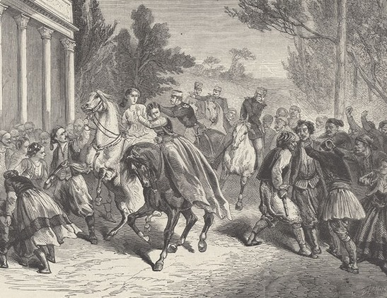 The failed assassination attempt of Aristeidis Dosios on queen Amalia of Greece in Athens, September 1861